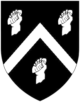 Canting arms of de Stevenstone family, lords of the manor of Stevenstone, in the parish of St Giles in the Wood, near Great Torrington, Devon: Argent, a chevron between three hands grasping a flintstone sable ("Steven's stone", possessive indicated by a grasping fist) These arms were quartered by Monck (Carew's Scroll of Arms, no.537) of nearby Potheridge in the parish of Merton, of which family was the Duke of Albemarle